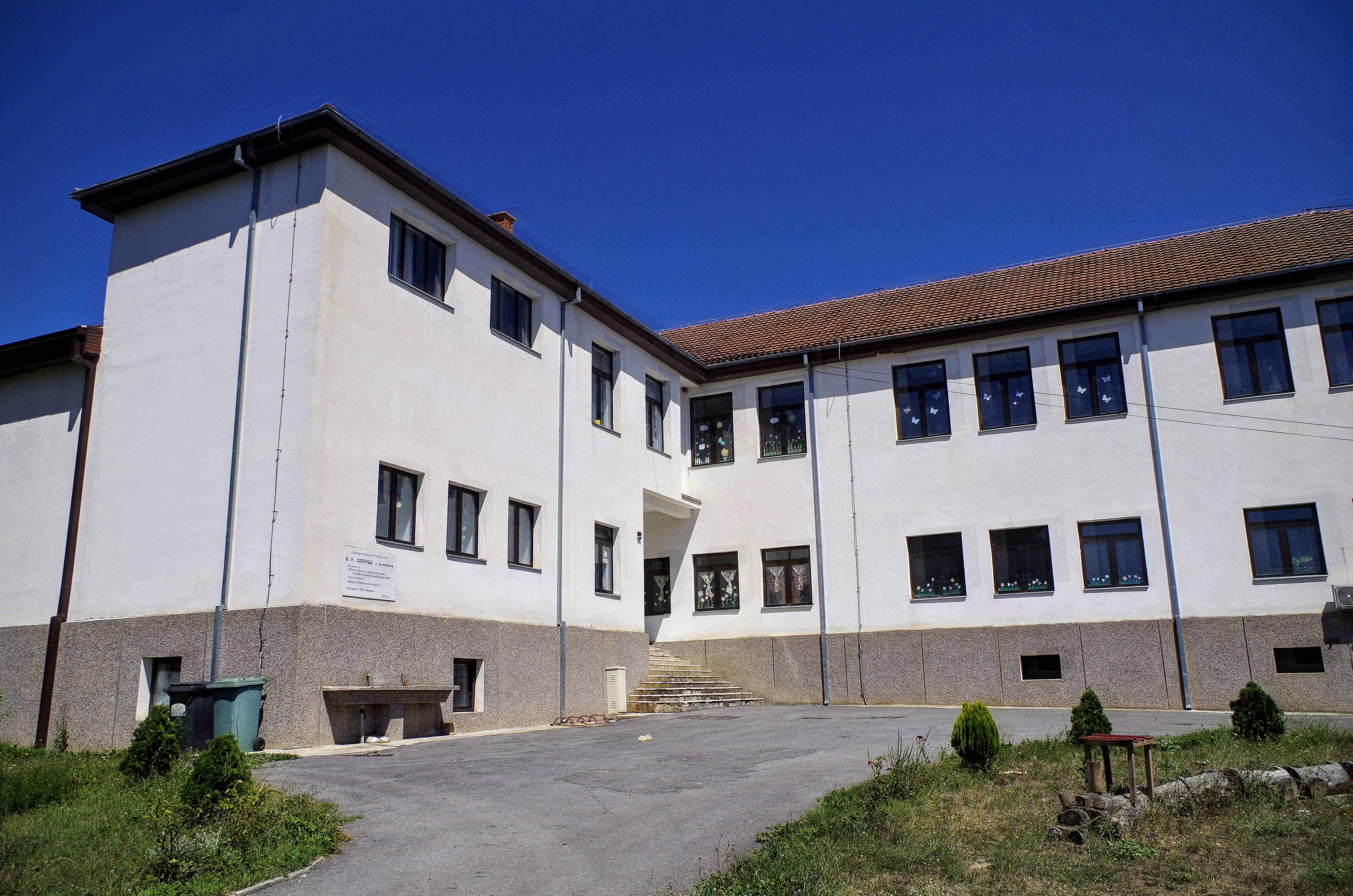 View of the primary school in the village Belčišta, Macedonia